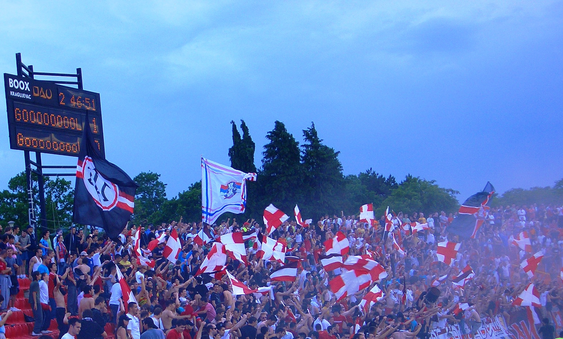 Supporters of Šumadija Radnički 1923 from City of Kragujevac are known as Red Davils.